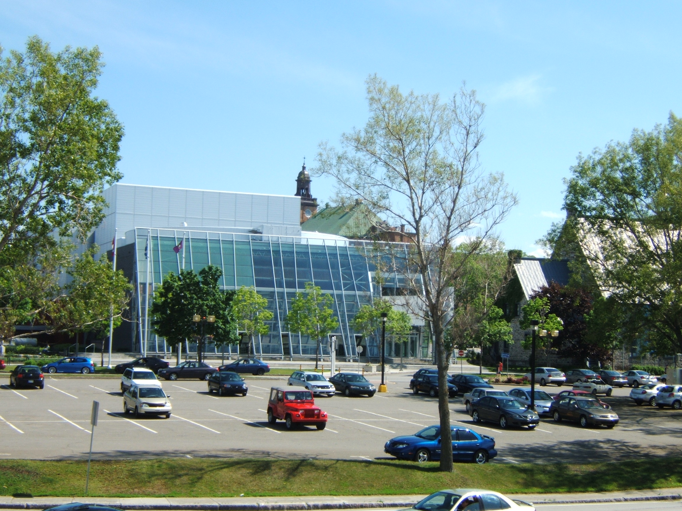 The Desjardins-Telus Theatre of Rimouski on sunny day.